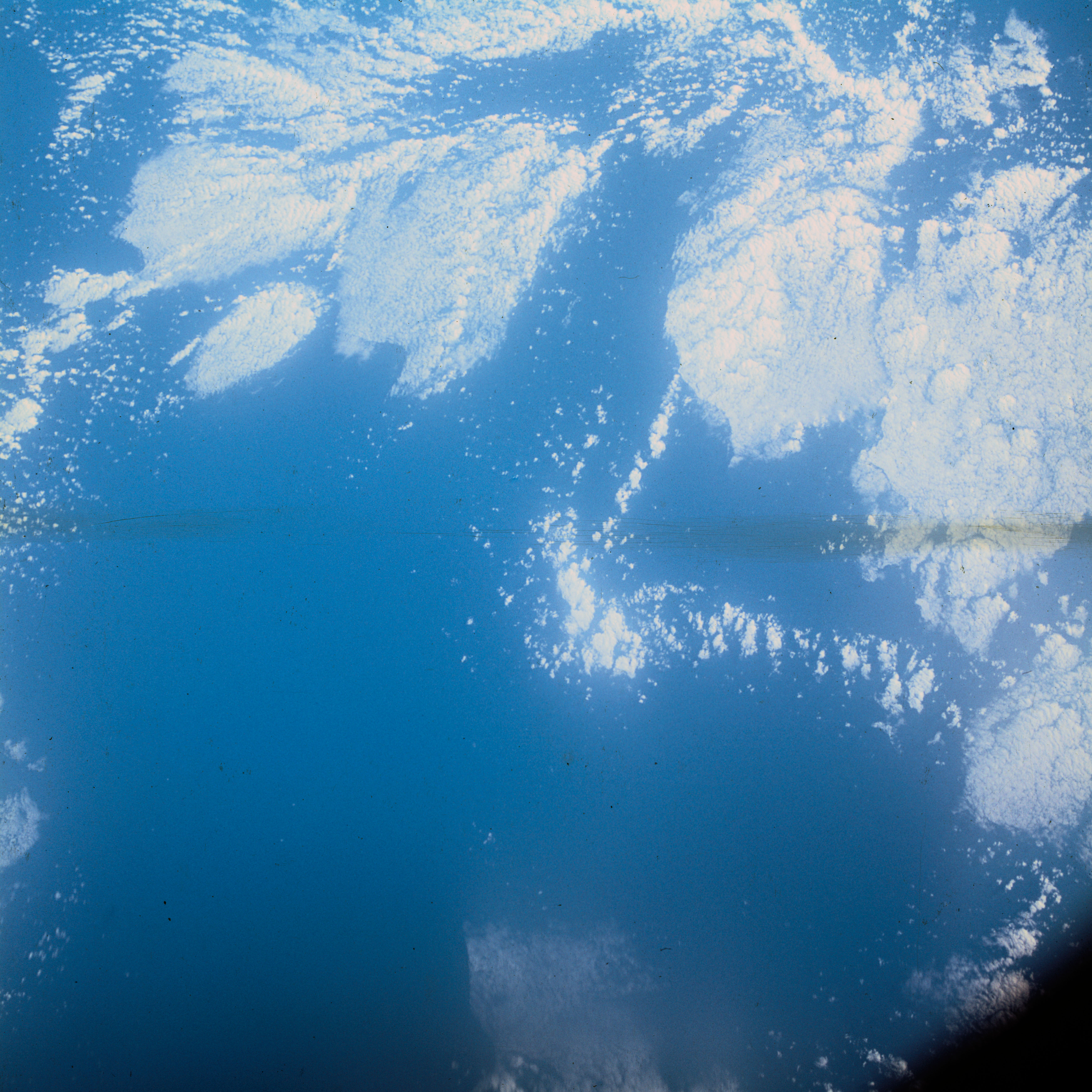 Cloud formation over Western Atlantic Ocean north of South America taken during the fourth orbit pass of the Mercury-Atlas 8 mission by Astronaut Walter M. Schirra with a hand held camera.